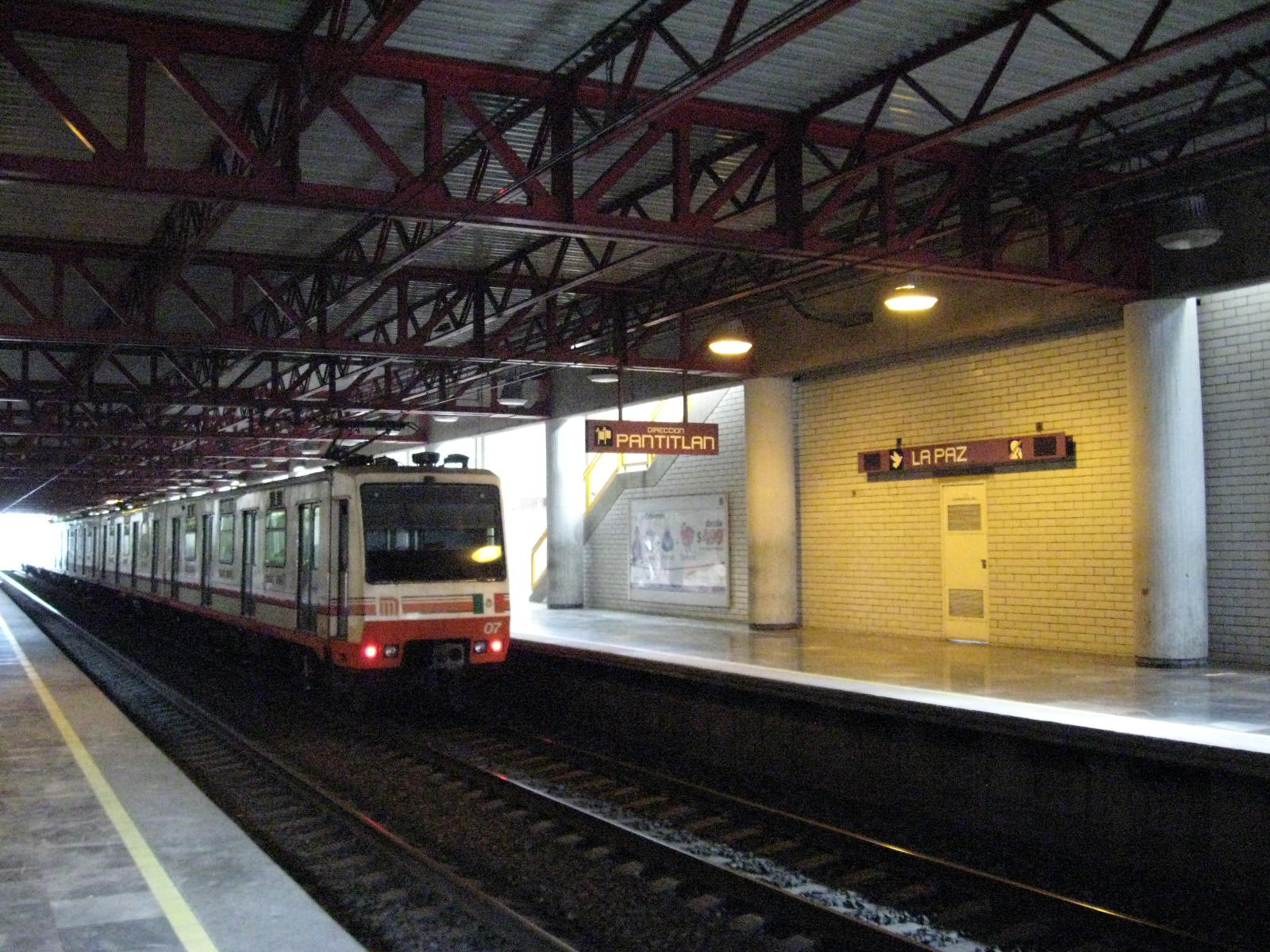 View of the southern terminal of Line A of the Mexico City Metro system, a station called La Paz, located in the Municipality of La Paz in the State of Mexico